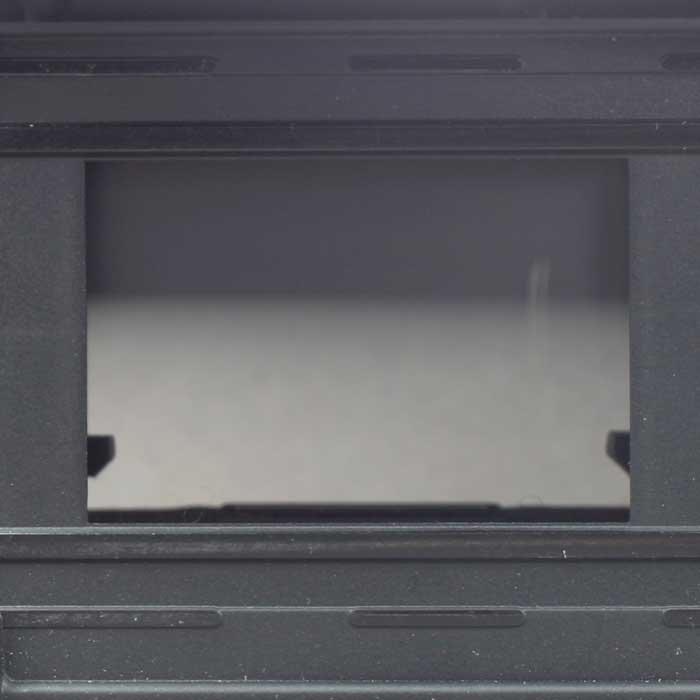 Focal plane shutter photographed while closing. The dark top part is the closing curtain on its way down. Photo by Henrik Jessen